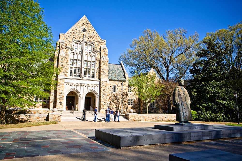 Burrow Hall with Diehl Statue